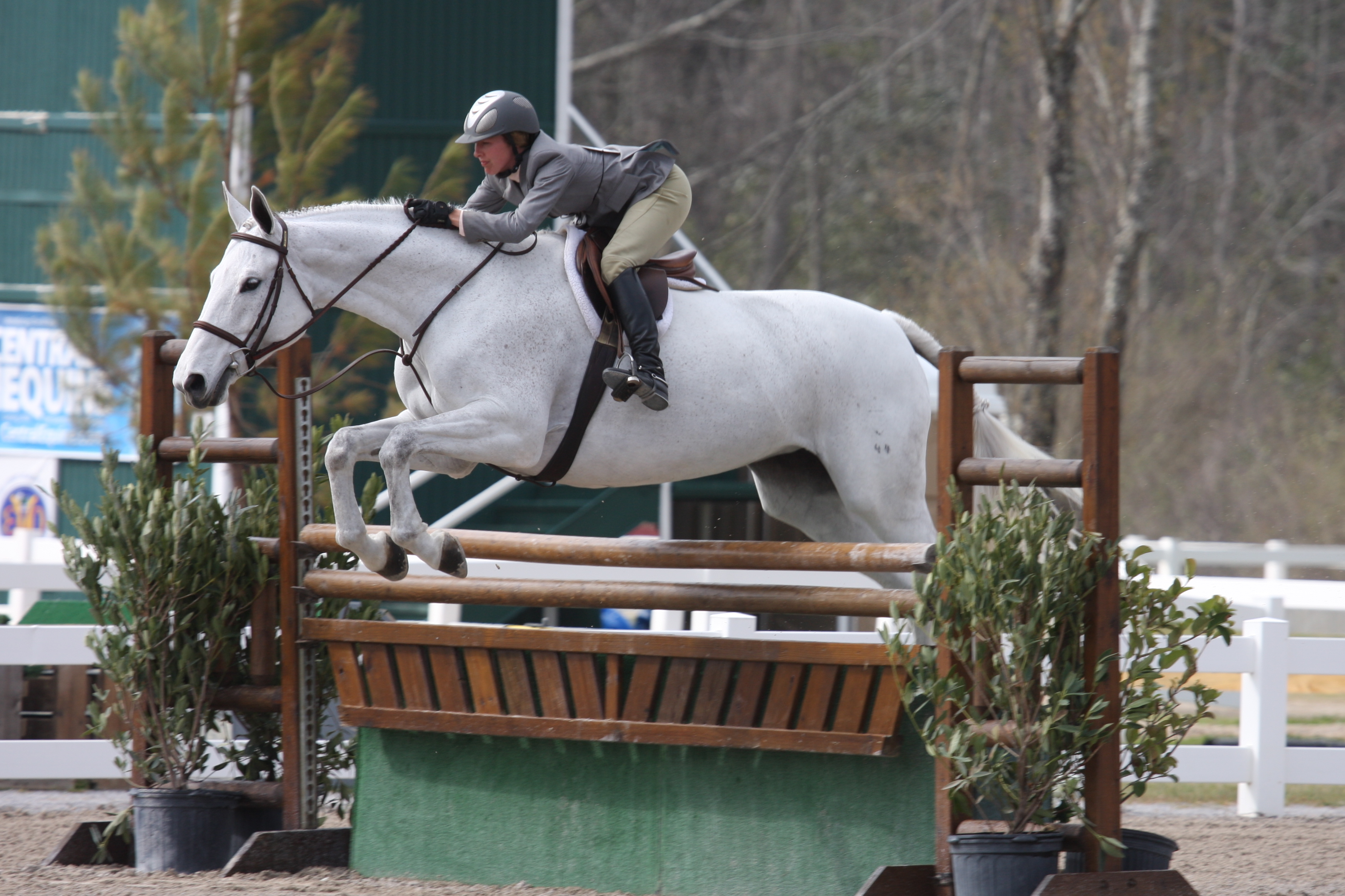 In the United States, Holsteiners often make very good show hunters.